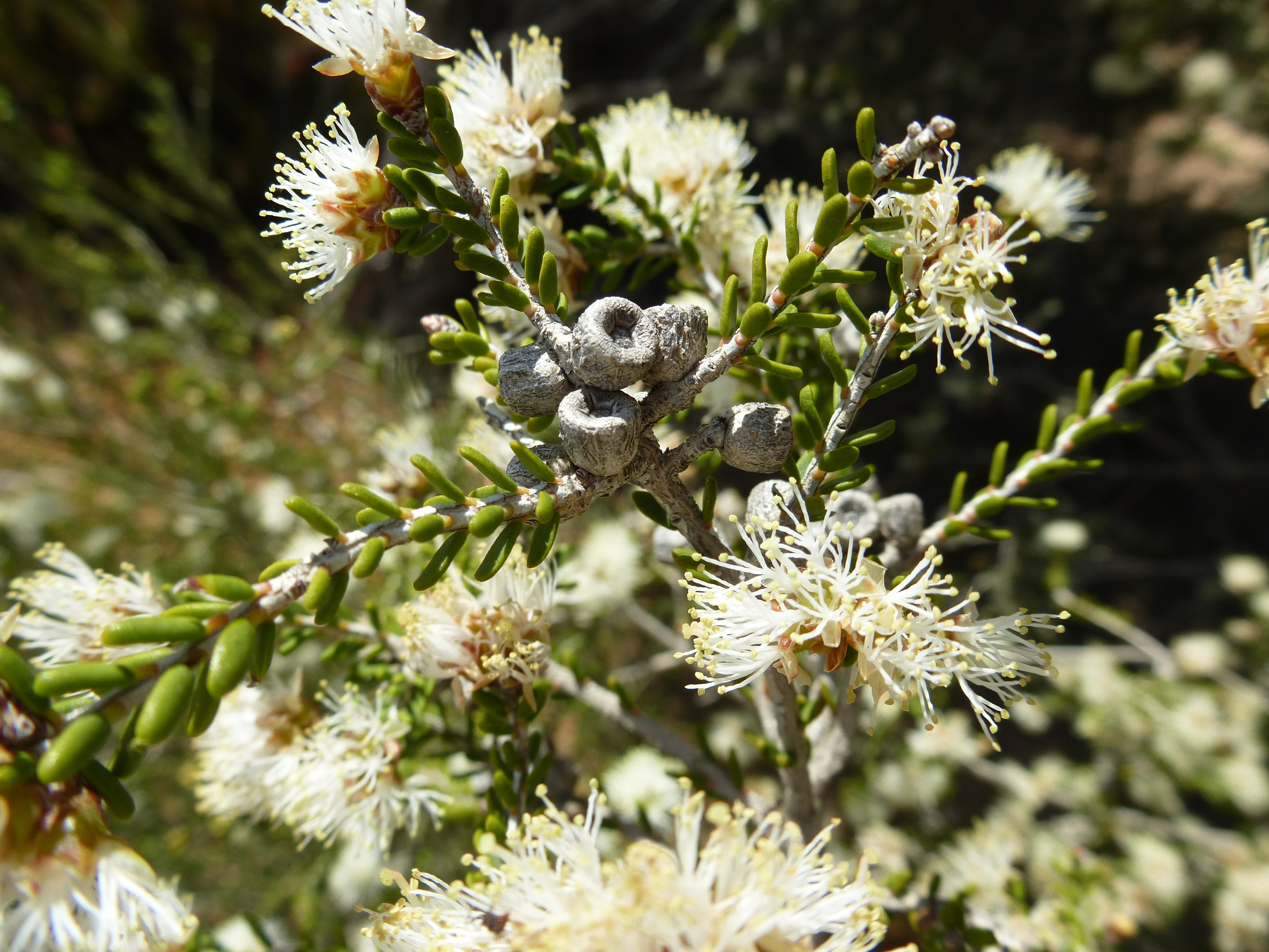 Melaleuca halmaturorum growing near a salt lake, 5km S of Hyden